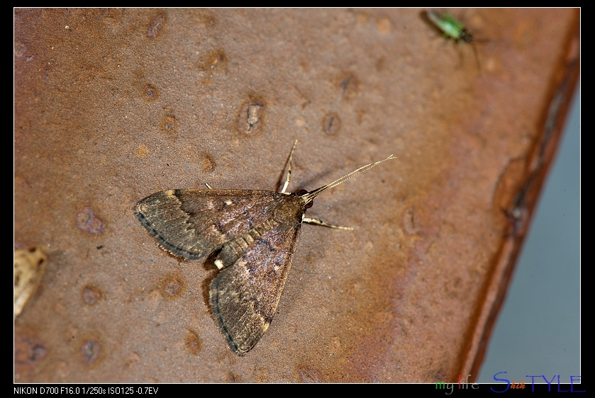 DSD_8485 Camptomastix hisbonalis